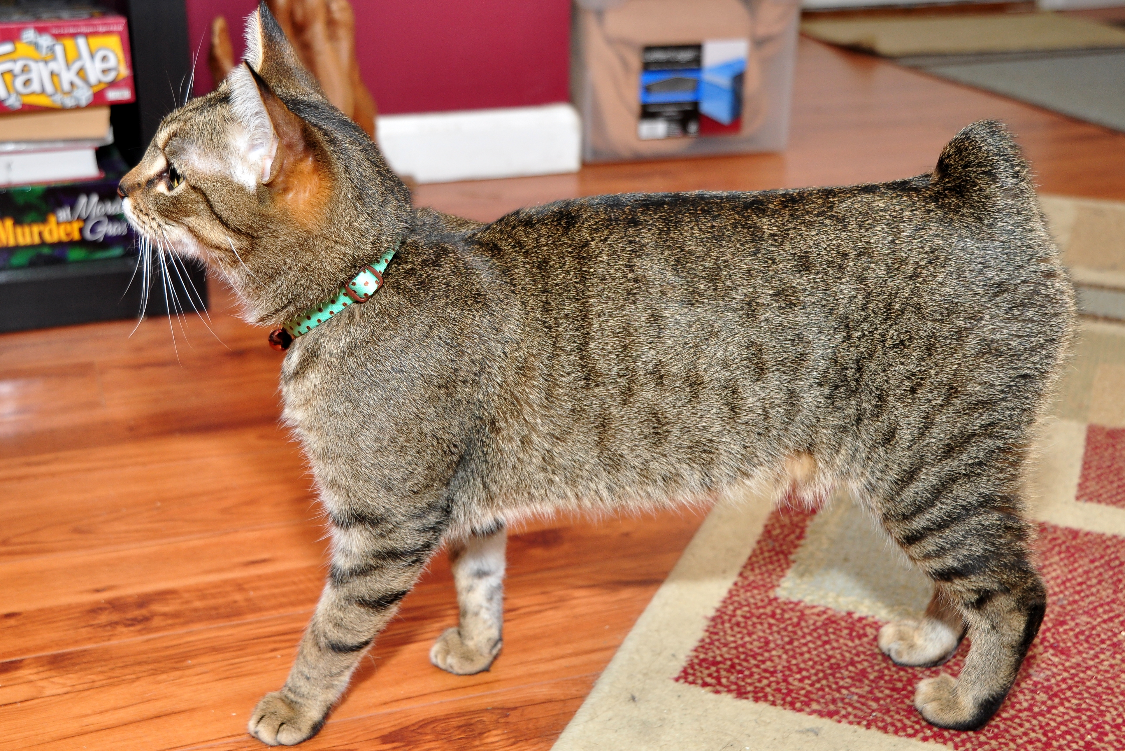 This is an example of a "rumpy riser" tail in a Manx cat